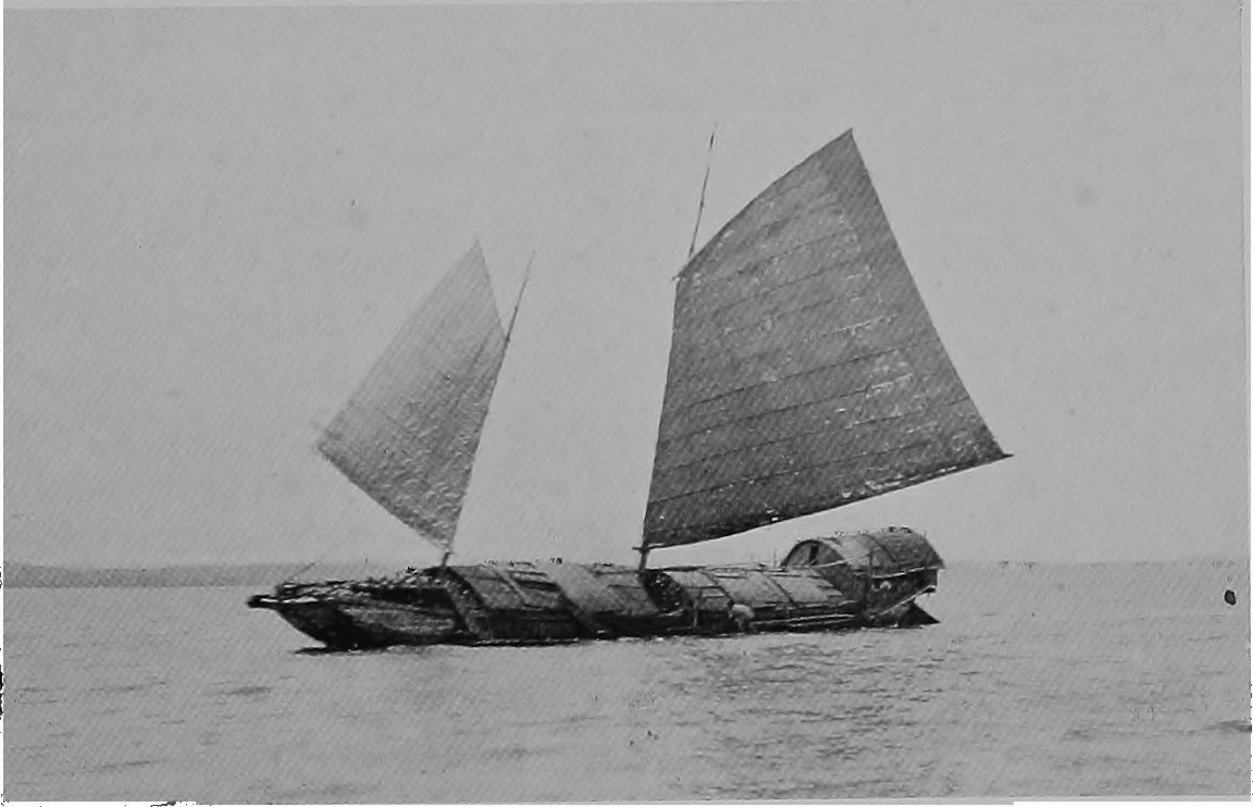 A casco (barge) in Manila Bay (1906)